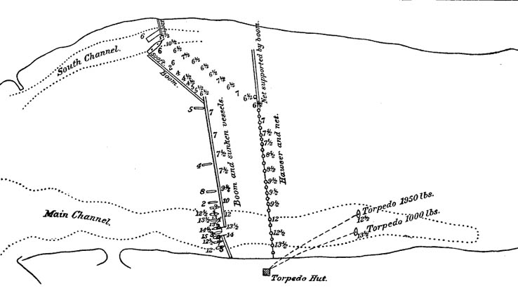 Map of the Union naval boom on the James river which was breeched by Confederate forces in the 1865 Battle of Trent's Reach. The Obstructions: The Boom and Net: Library of Congress LC-B811- 2475. ORN Series I Vol. 10:464-465, 670.